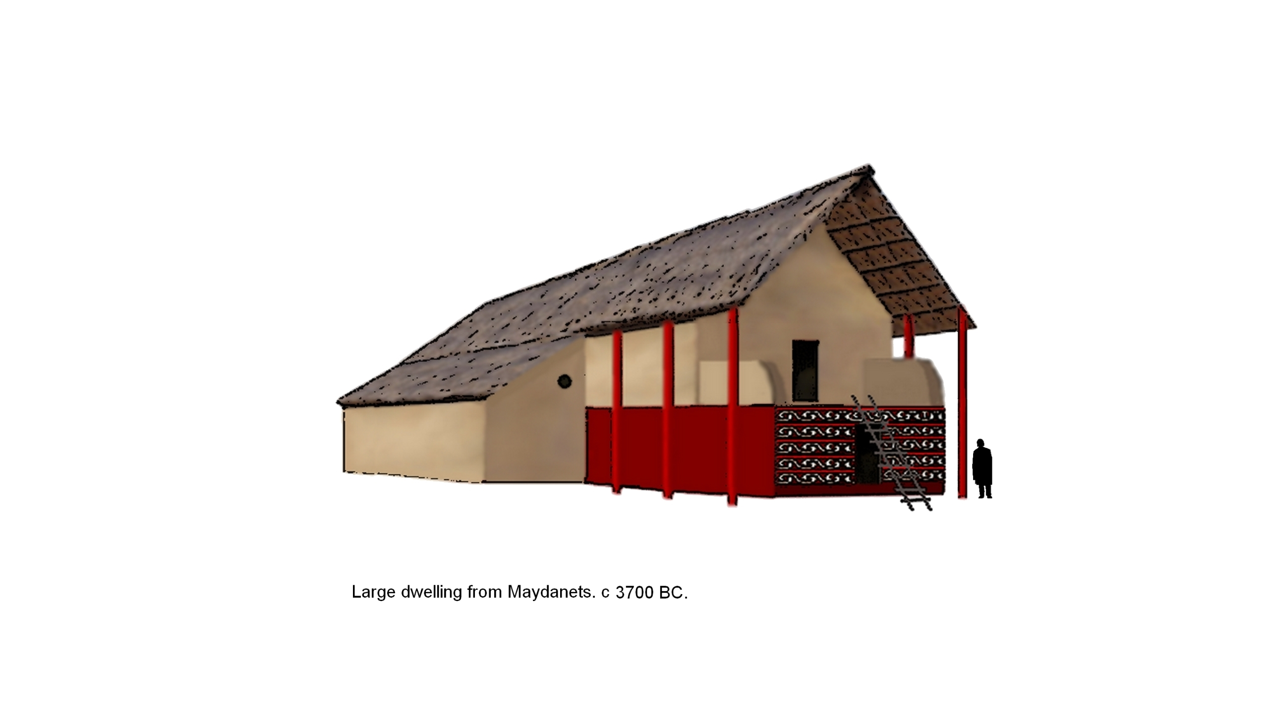 Cucuteni - Trypillian culture. Large house from Maydanets c. 3700 BC. From the Book OLD EUROPE - FIRST CIVILIZATION 7000-3000 BC AF KENNY ARNE LANG ANTONSEN, JIMMY JOHN ANTONSEN